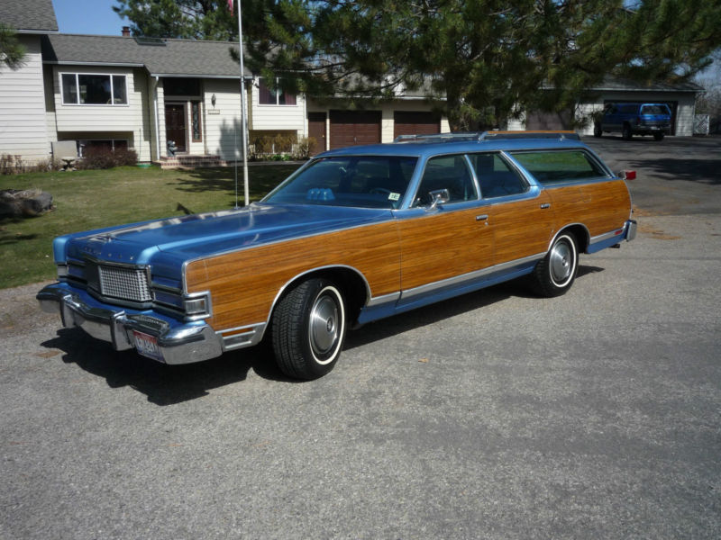 Front 3/4 view of a 1974 Mercury Marquis Colony Park station wagon